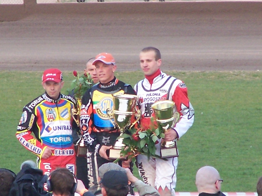 en:2007 Mieczysław Połukard Criterium of Polish Speedway Leagues Aces podium: Jaguś (2nd), Ferjan (1st) and Szczepaniak (3rd)